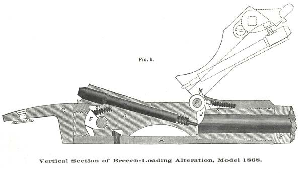 This technical drawing of the US Model 1868 breechloading mechanism shows the simple but sophisticated construction of the breechloading rifle.